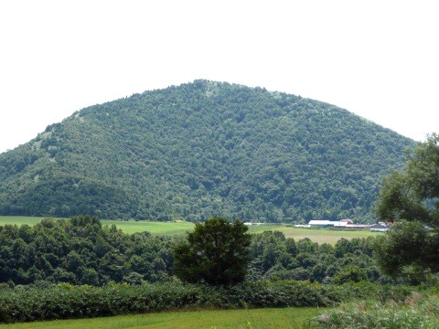 Mount Nishinomori seen from the NNW, in Kazuno, Akita Prefecture, Japan.